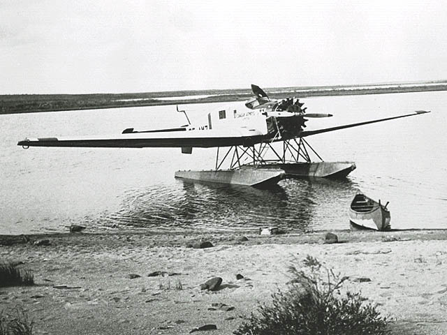 Junkers W34